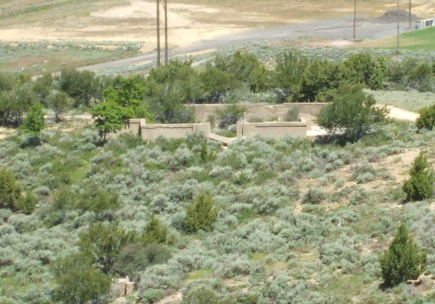 The foundation of the Knightsville School, one of the few remnants of the ghost town of Knightsville, Utah, United States.